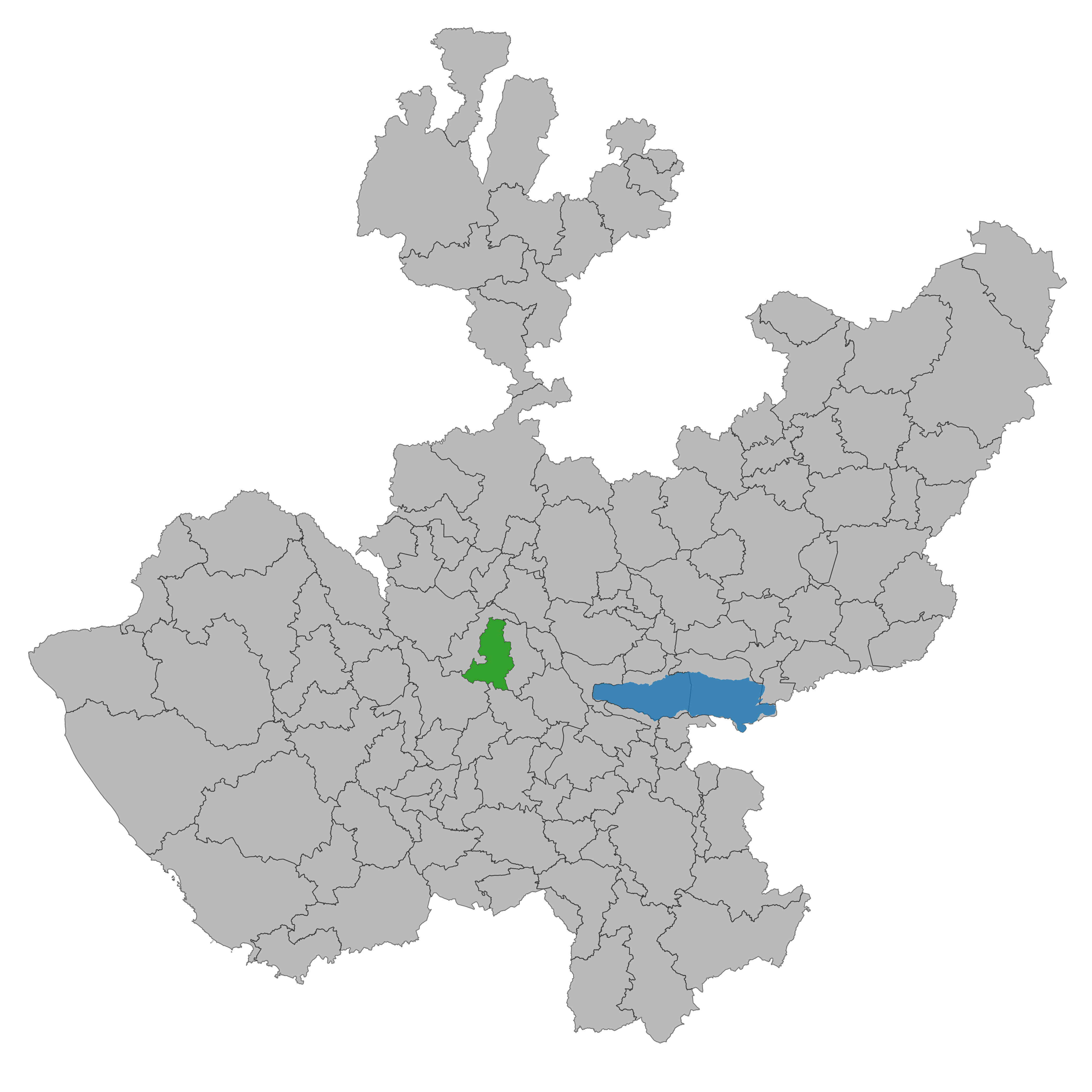 Municipality of Jalisco. Prepared with the software QGIS version 2.8.2 Wien & with information of SCINCE 2010 version 05/2013